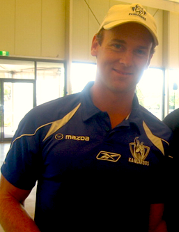 Australian rules footballer Adam Simpson at a North Melbourne Football Club open day.